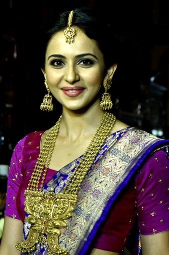 Rakul Preet Singh graces Teach For Change event, March 30, 2018